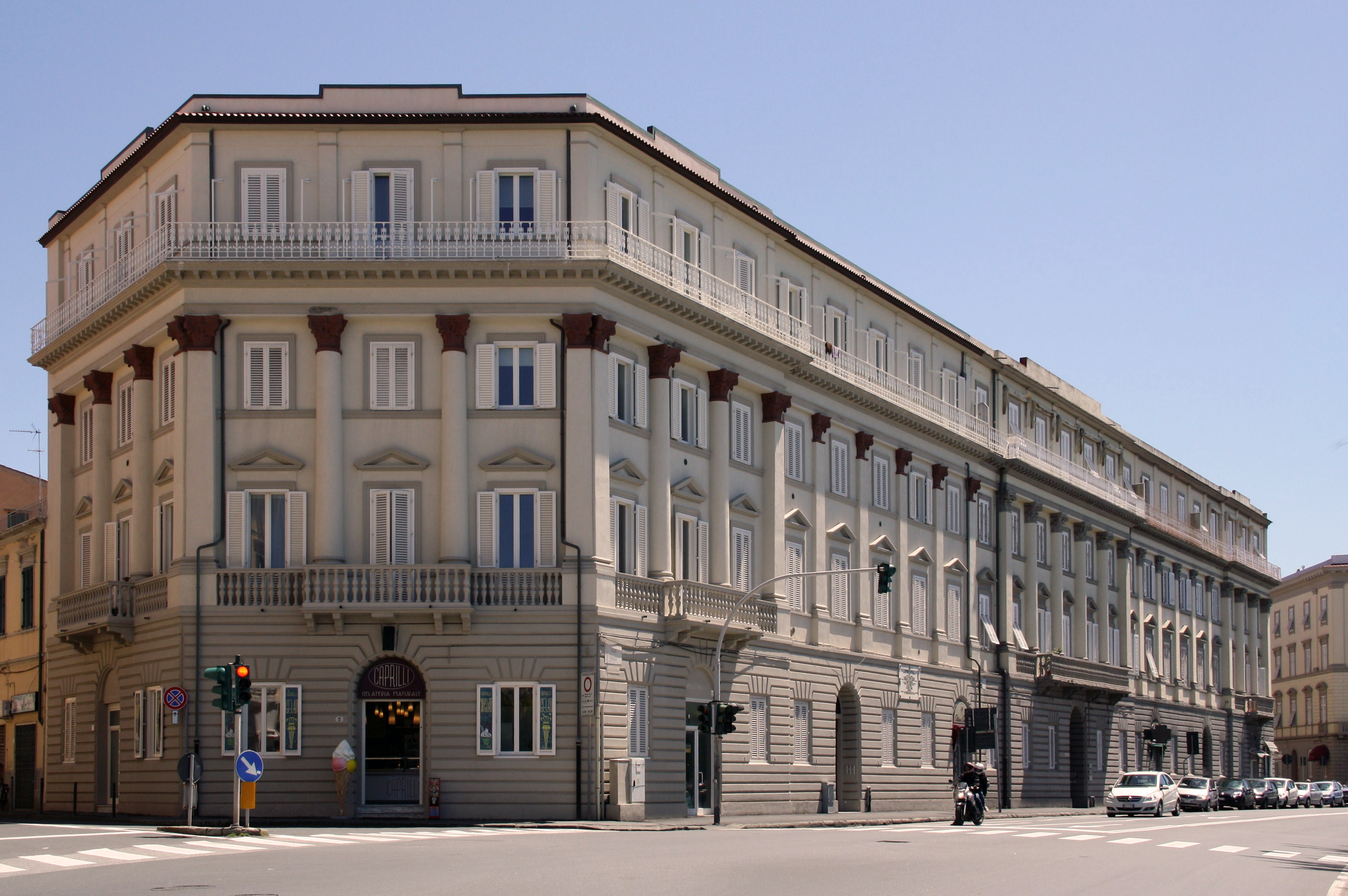 Italy, Livorno, Viale Italia. The large Caprilli Palace was built in 1845-1852 by the baker Domenico Caprilli which divided it in furnished apartments to rent in the summer season. In 1870 the palace was of property of Enrico and Olinto Caprilli who sold part of it to EsterTedesco Rignano. In 1893 the palace was completely owned by Rignano.